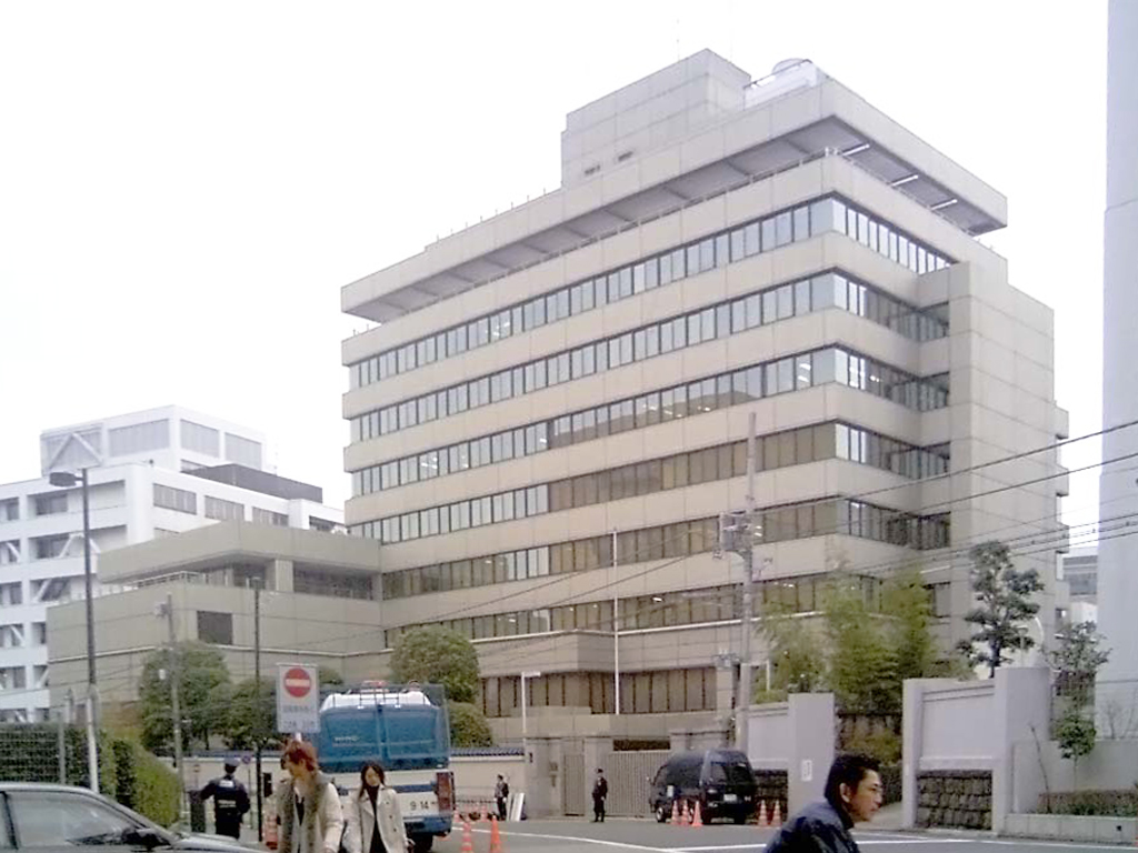 Chongryon Headquarters in Chiyoda, Tokyo, Japan